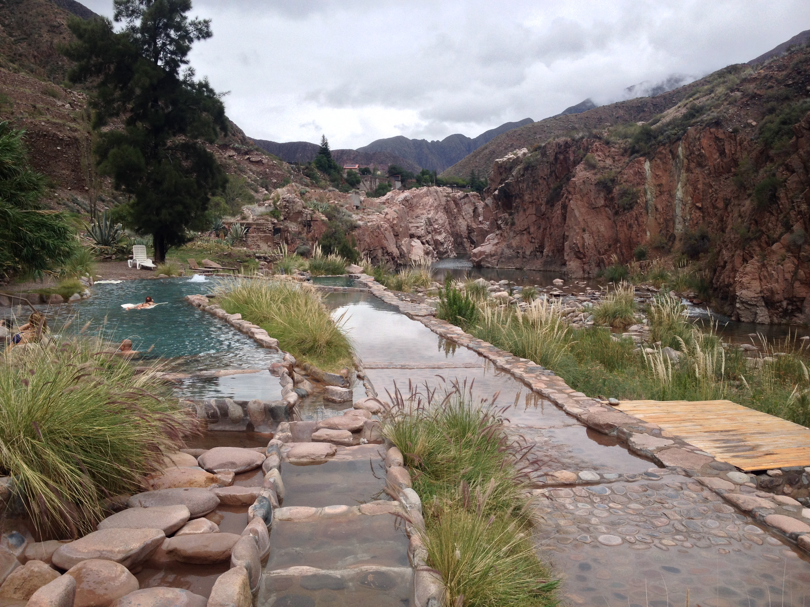 Pools at the Cacheuta Hot Springs, Mendoza Province, Argentina.